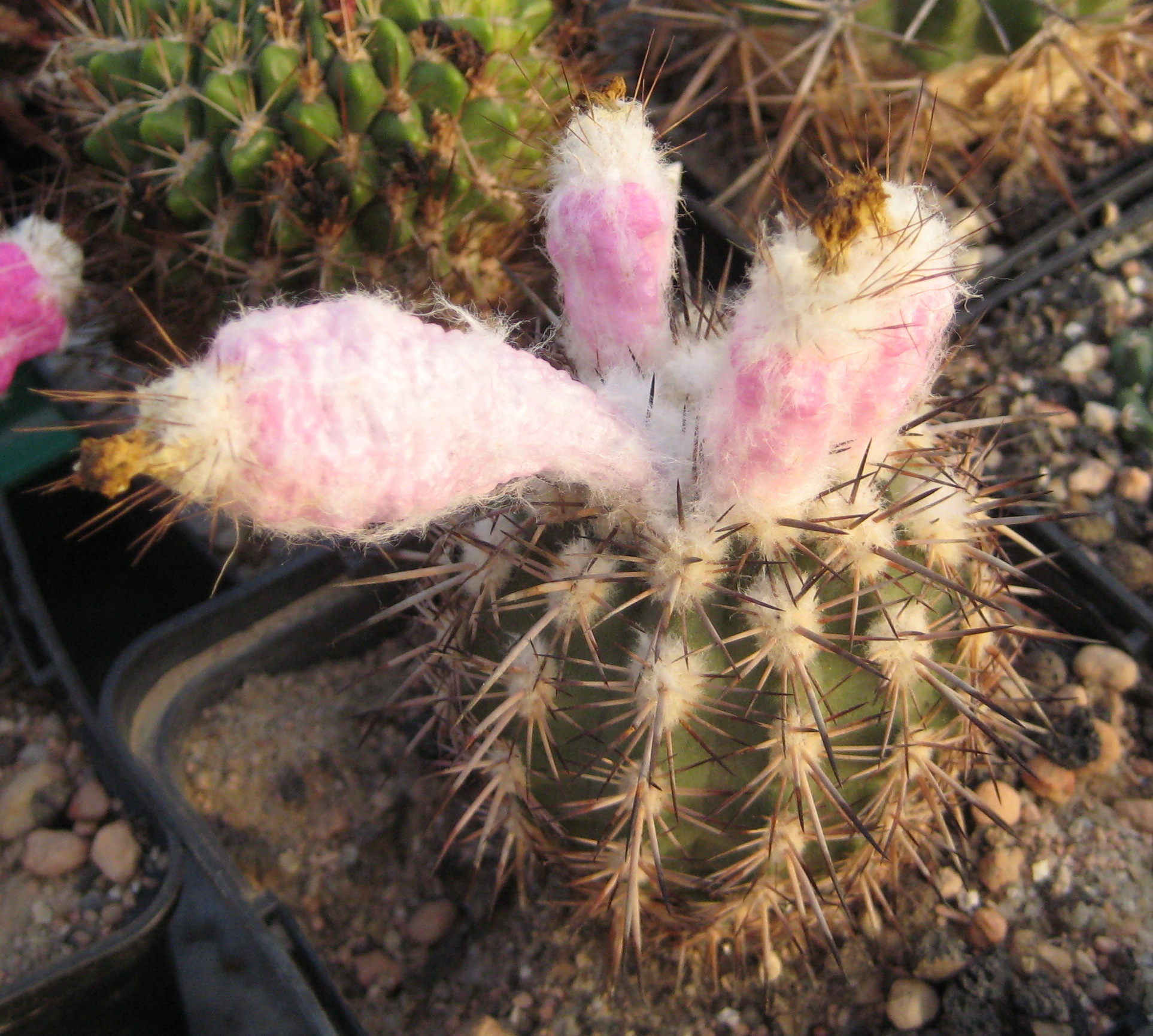 Eriosyce islayensis (Syn.: Islaya molendensis)